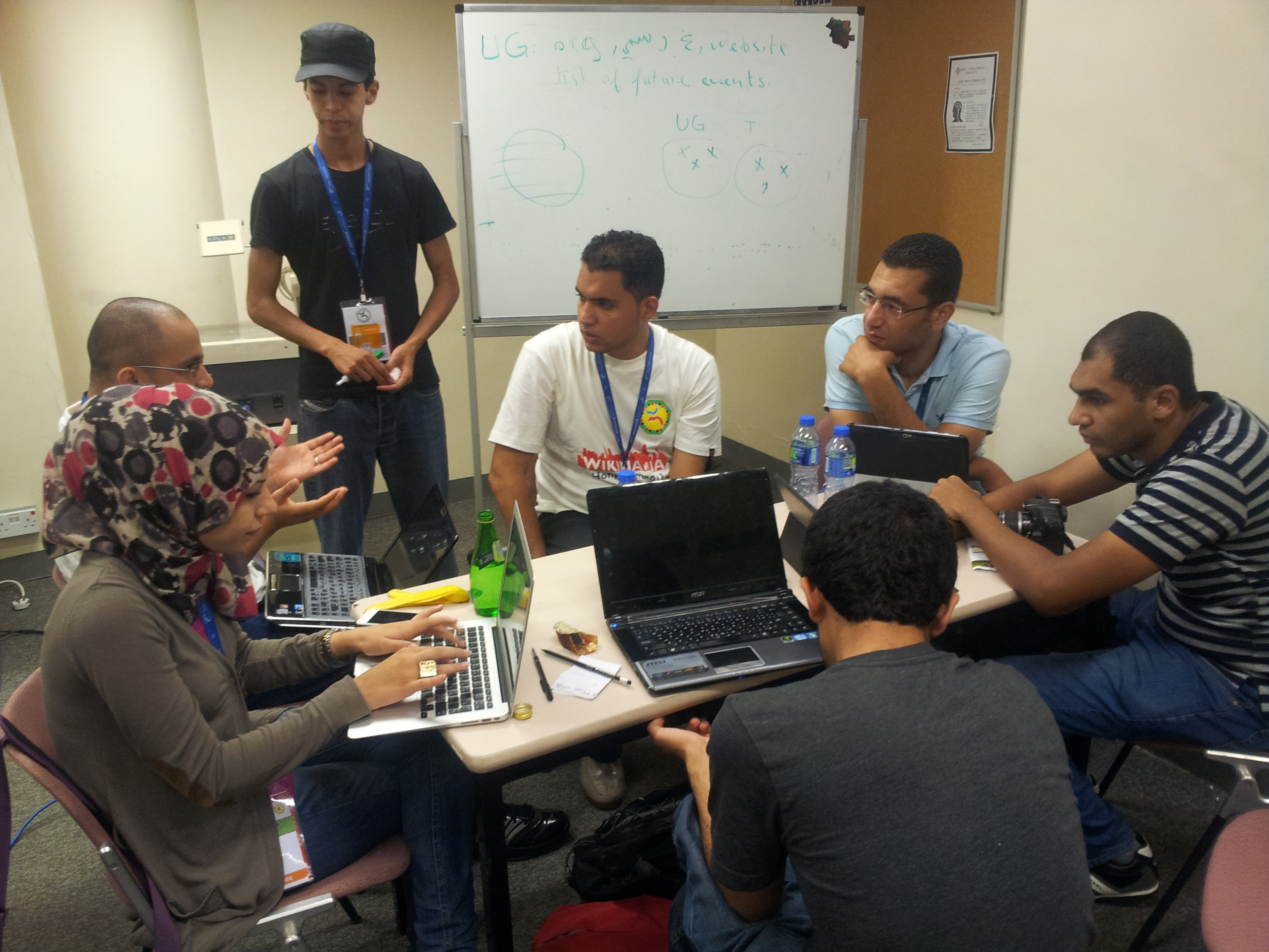 Arab Wikipedians meeting at Wikimania in Hong Kong to discuss possibilities of founding Wikimedia Arab World chapter.